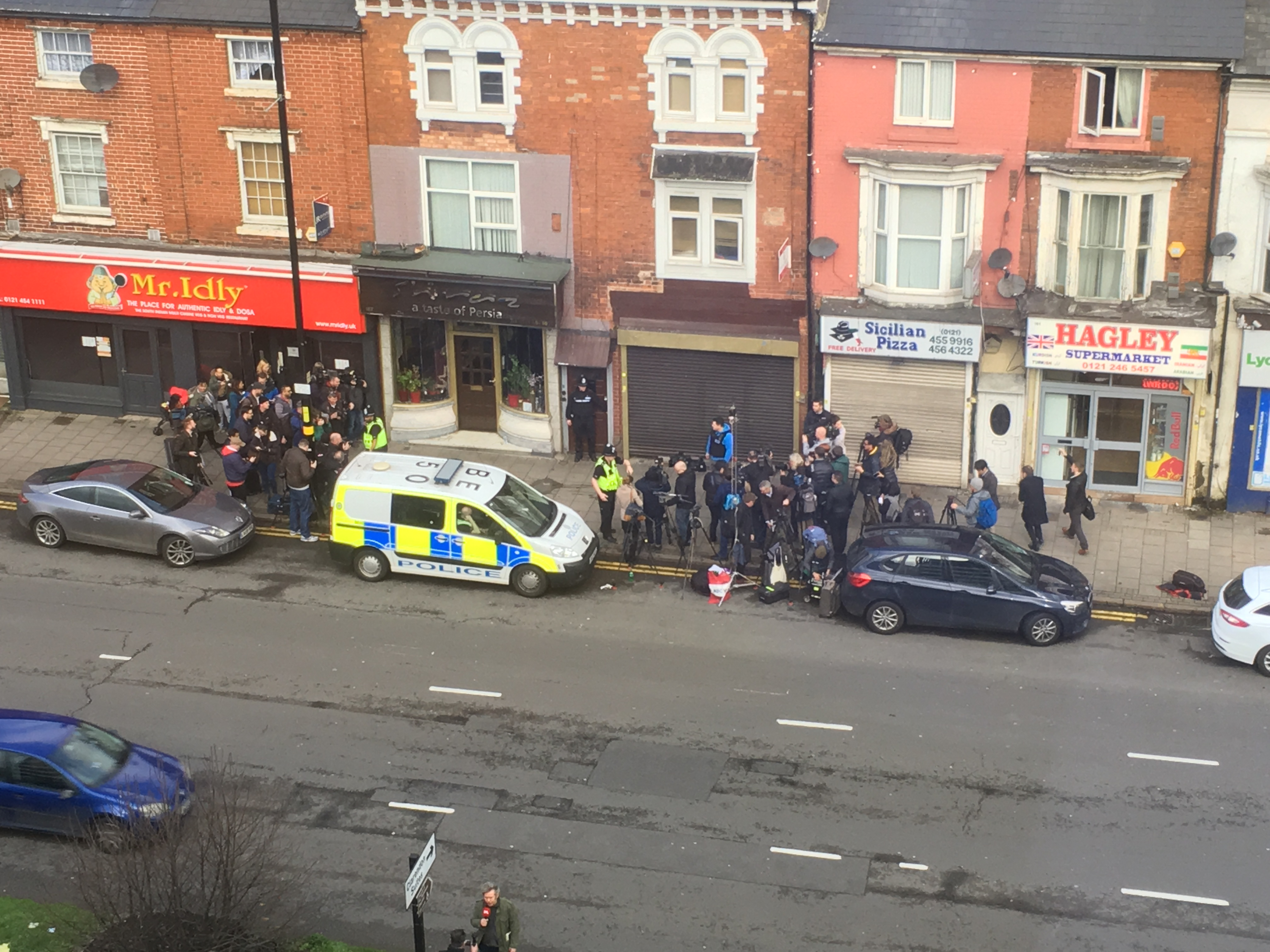 Media and Police outside flat on Hagley Road Birmingham on 23rd March 2017 following Police raid related to Westminster Terror Attack on 22nd March 2017